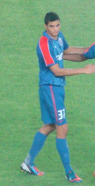 Didier Drogba, Giovanni Moreno and Nicolas Anelka played for Shanghai Shenhua against Guangzhou Evergrande